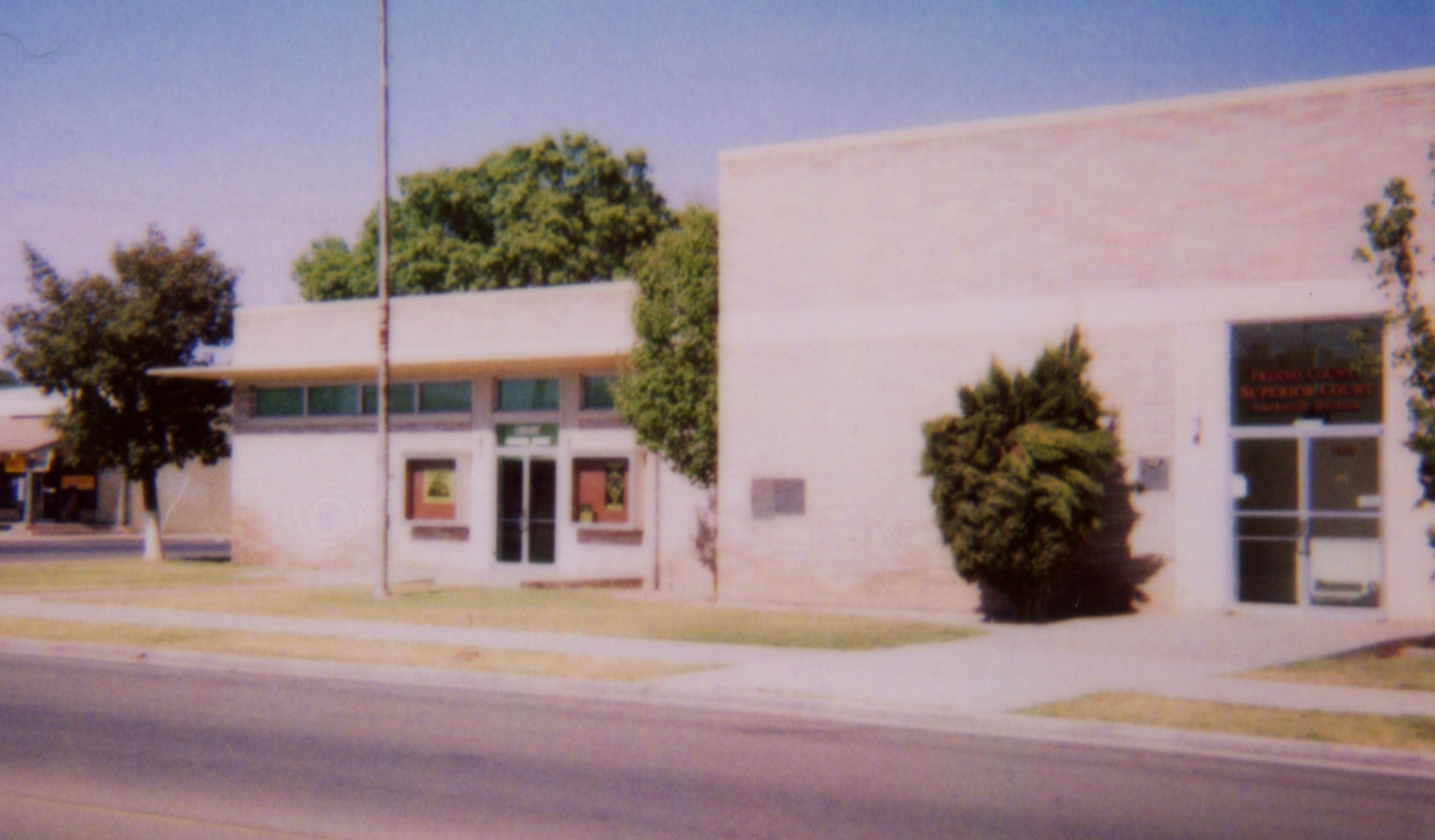 Documentary snapshot of community library (left) and courthouse (right) in Firebaugh. Polaroid snapshot image taken in 2006. Photo by David Jordan. Please credit the photographer when using this photo.